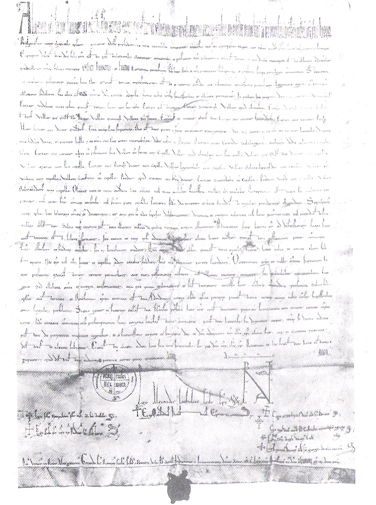 Document of Pope Alexander III. Chirchem, today , mentioned